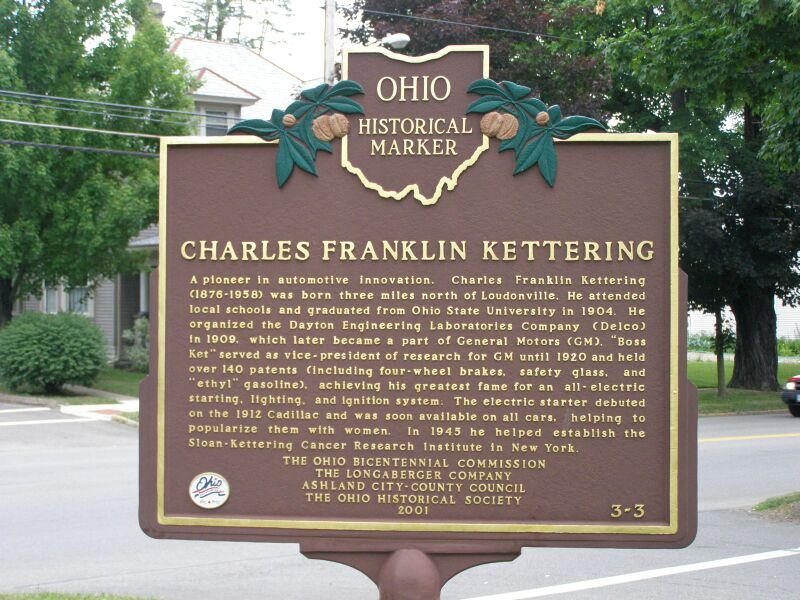 Charles Franklin Kettering historical marker at the Loudonville, Ohio library